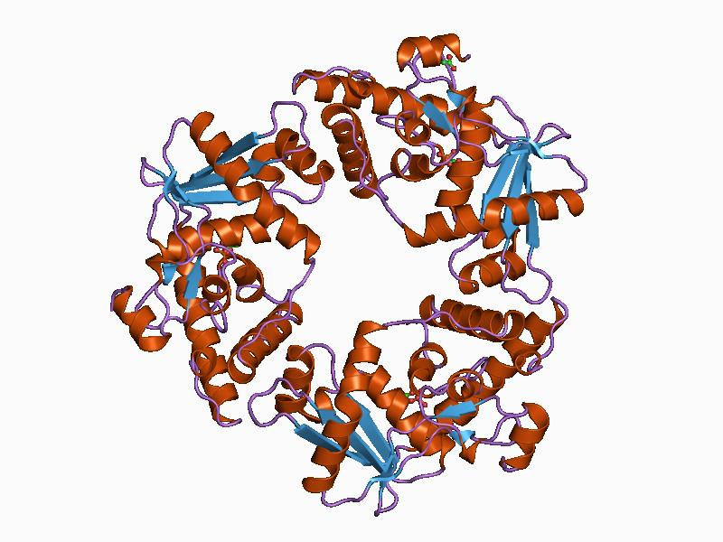 Cartoon representation of the molecular structure of protein registered with 1avq code.